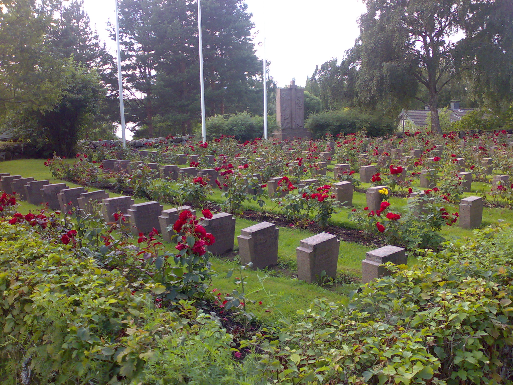 Military cemetary at Hauho church in Hauho, Finland